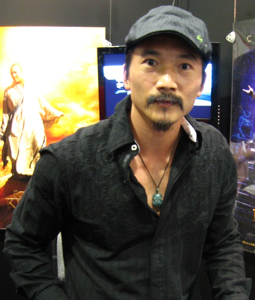 Collin Chou at the 2008 Los Angeles Wizardworld